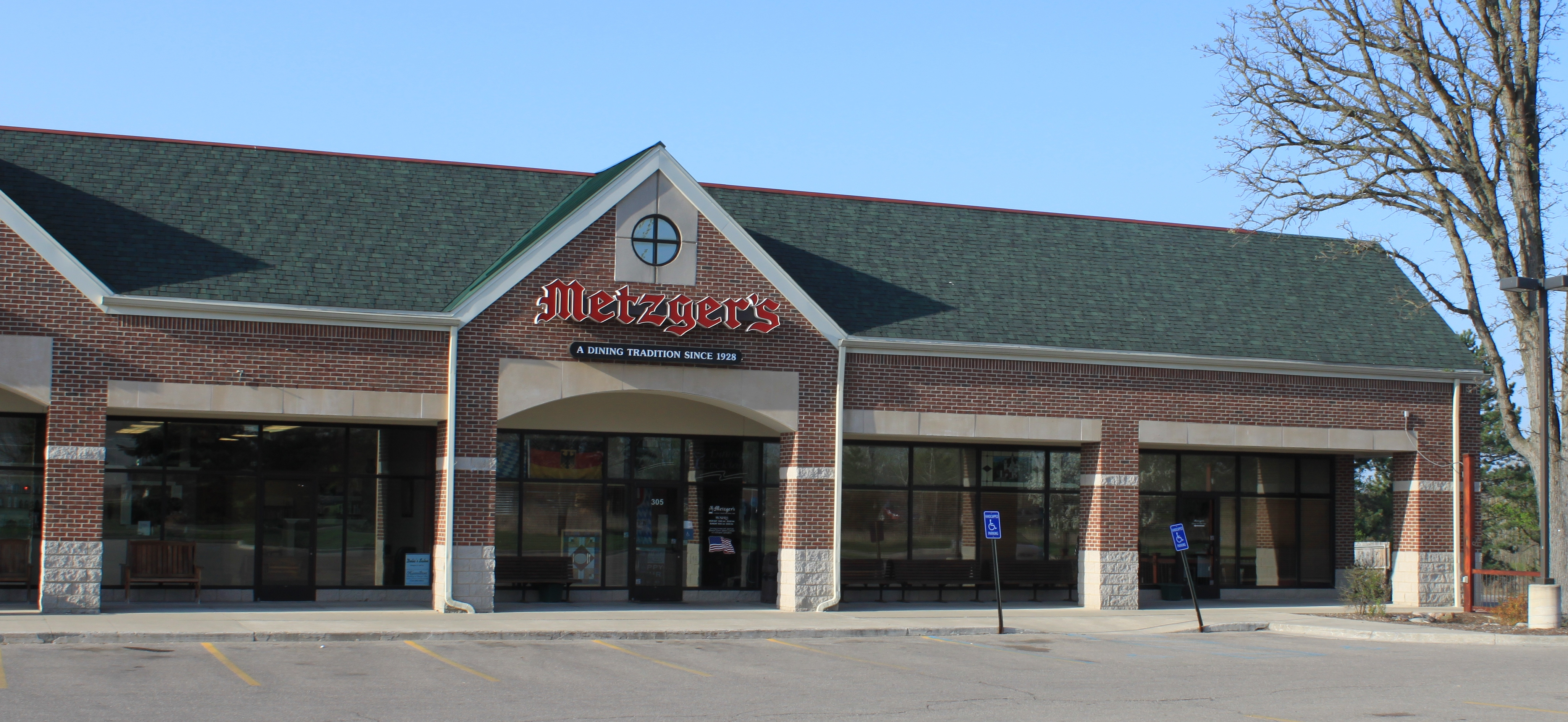 Metzger's German Restaurant, 305 N. Zeeb Rd., Scio Twp., Michigan 48103